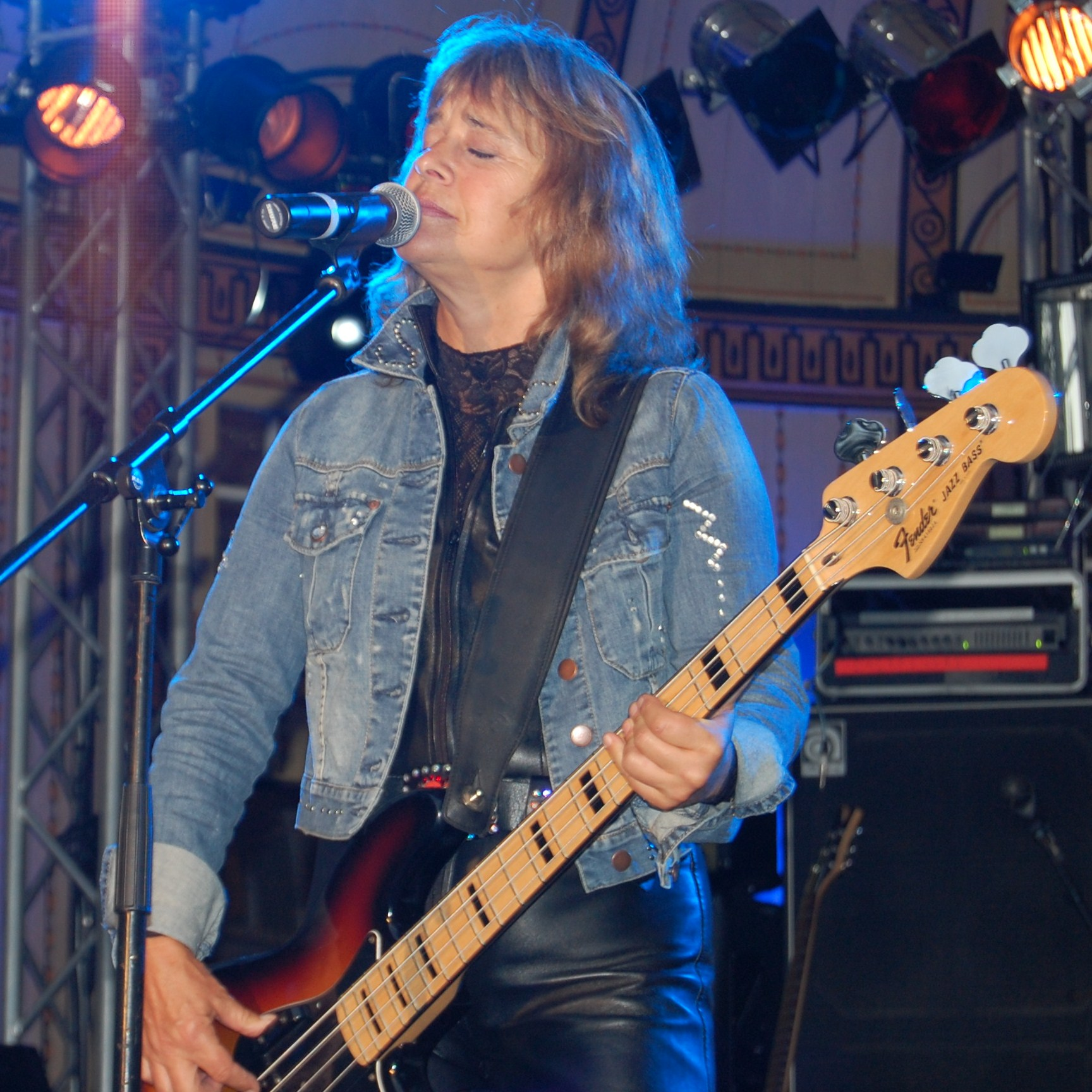 Suzi Quatro (2011) in Bad Kissingen (Germany)